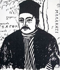 Athanasios Psalidas, Greek scholar (1767-1829), part of Diafotismos